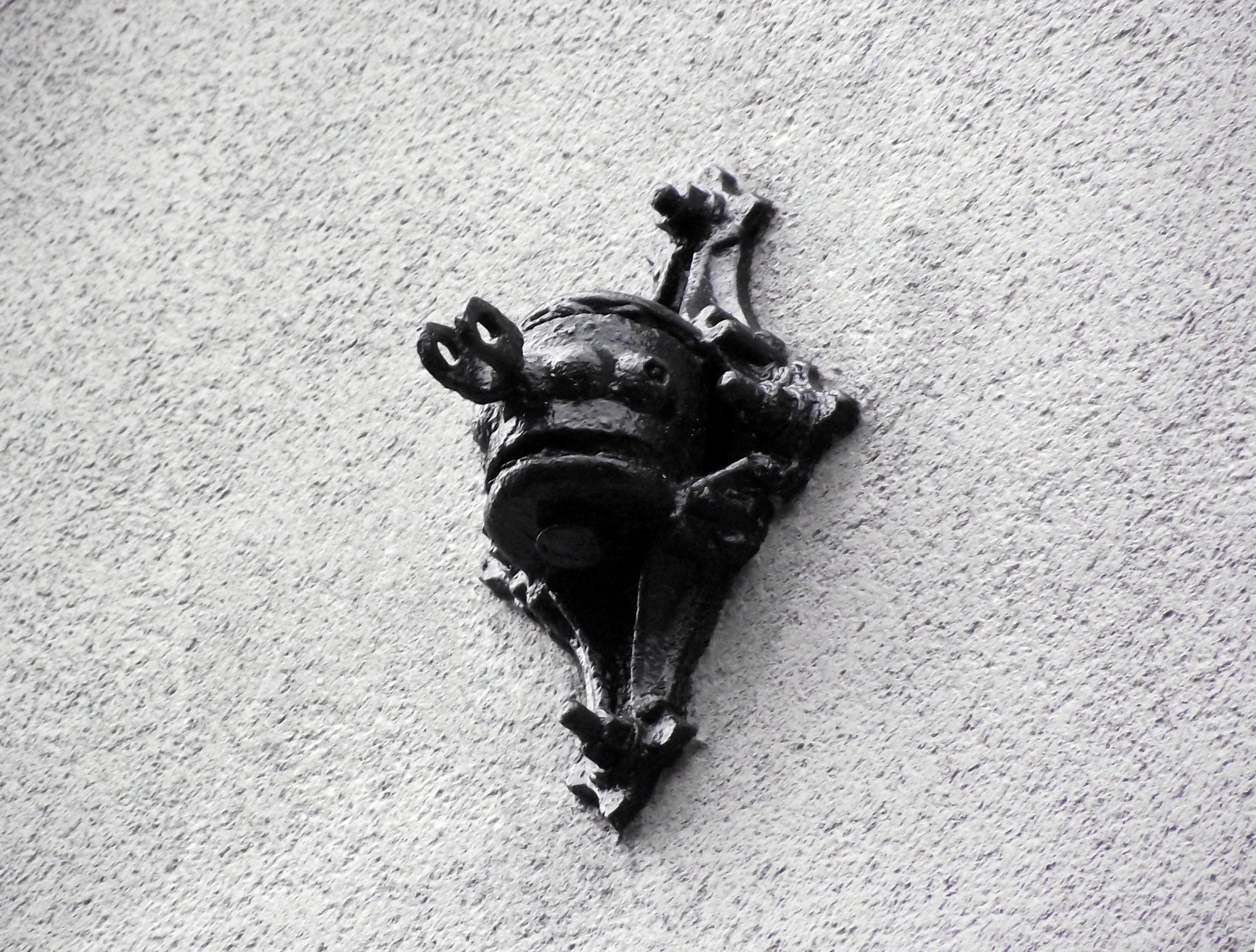 Old overhead rosette in the chaussée de Waterloo in the St Gilles commune of Brussels. This was used by the vicinal tramway.